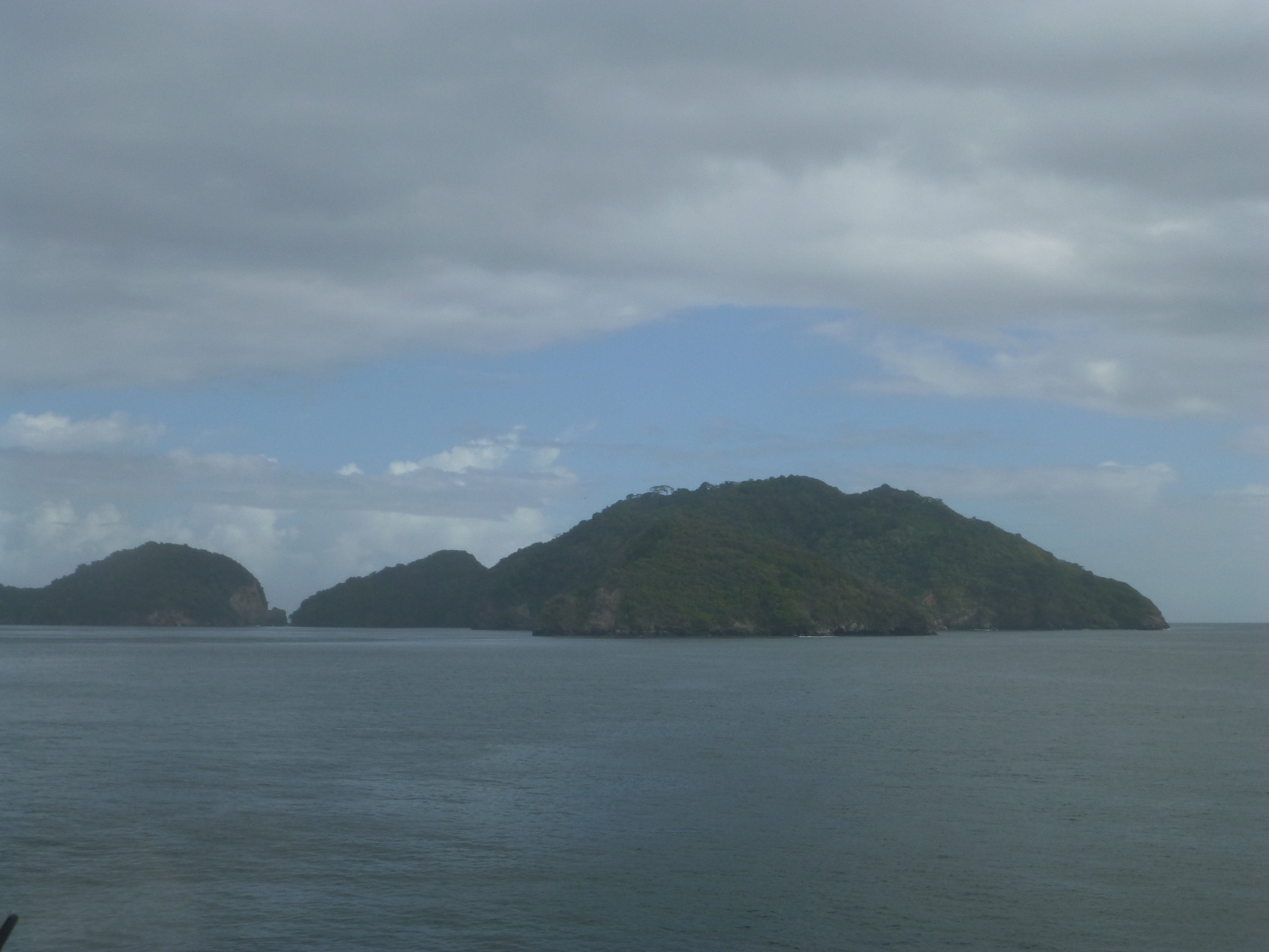 Huevos, Bocas islands, Chaguaramas, Trinidad. Seen from the southwest.